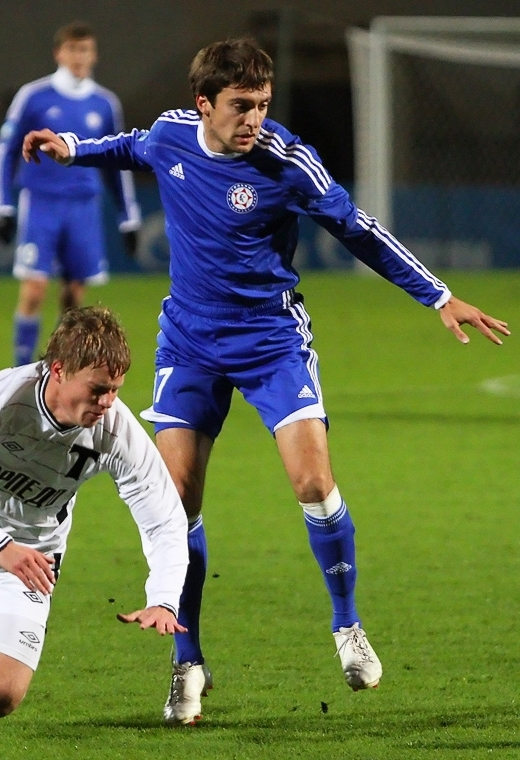 Breyev Sergei Gennadiyevich